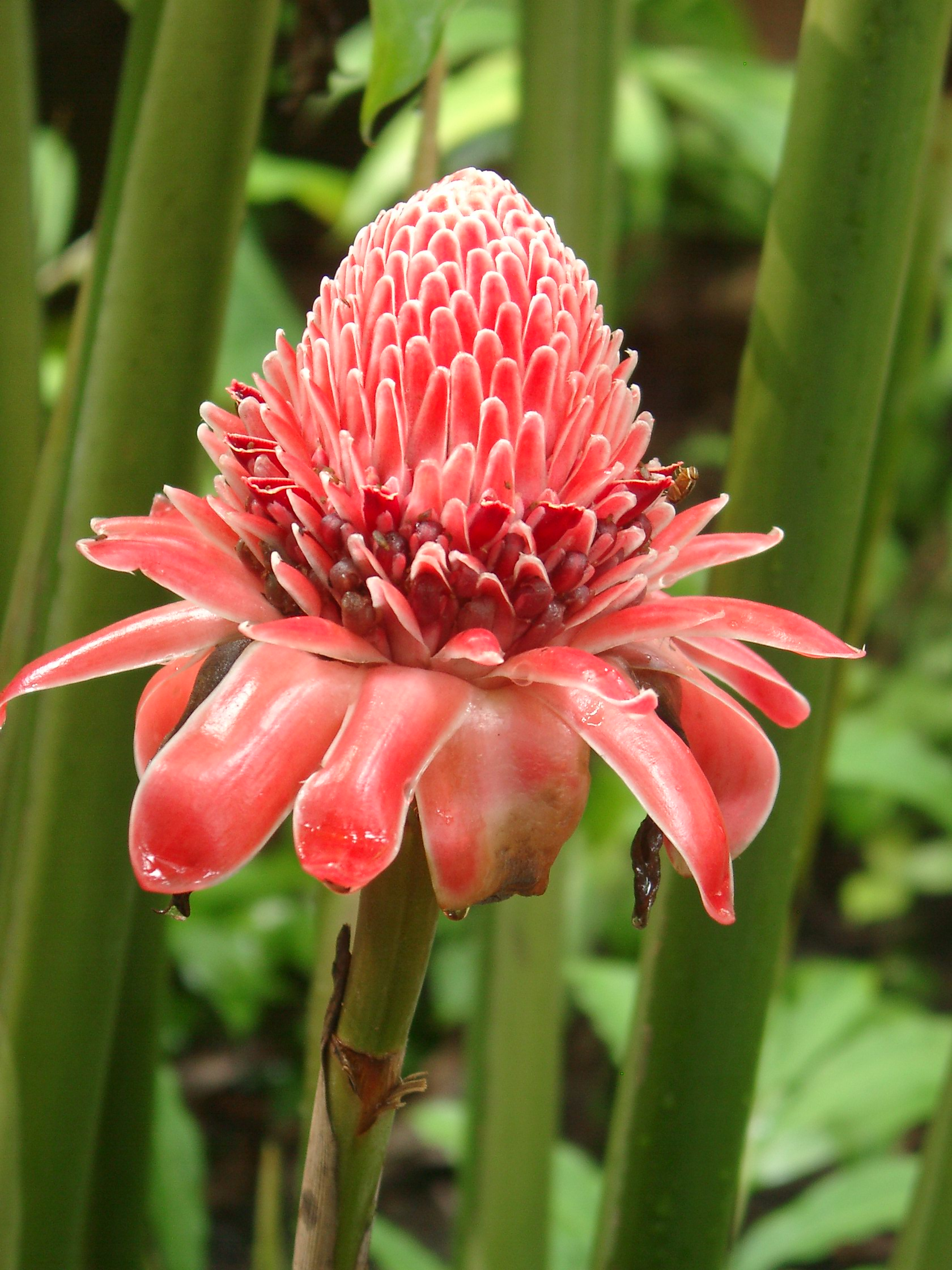 Ginger in the Botanical Gardens in Singapore